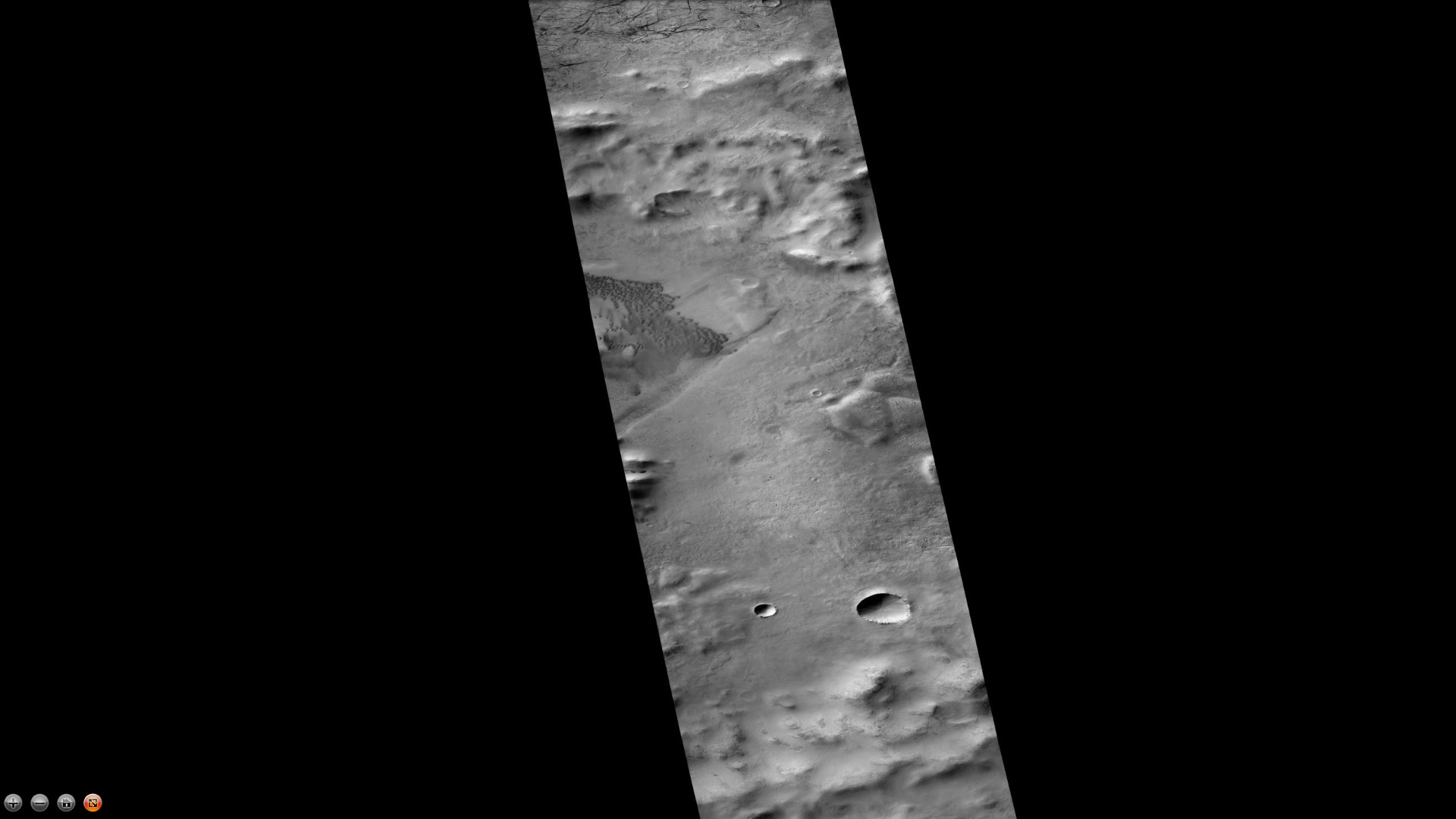 Clark Crater, as seen by ctx